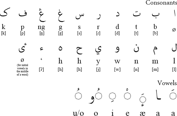 Kirim is an Arabic script, use in Mindanao by Maranao of the Philippines.